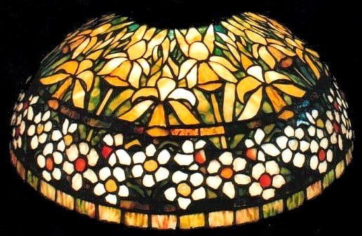 Reroduction of Louis Comfort Tiffany's Jonquil Daffodil lampshade.